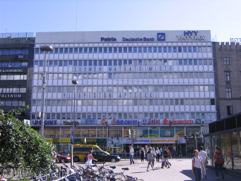 Kaivotalo building by Kaivokatu street in Helsinki, Finland.